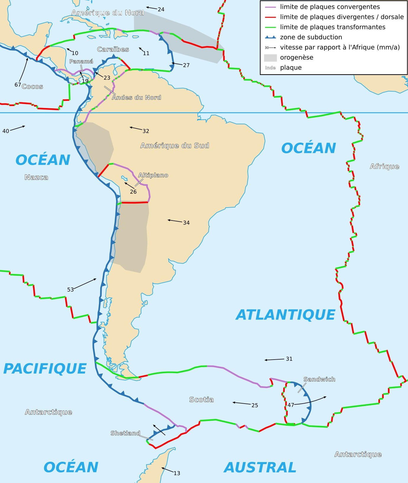 Map of the South American Plate